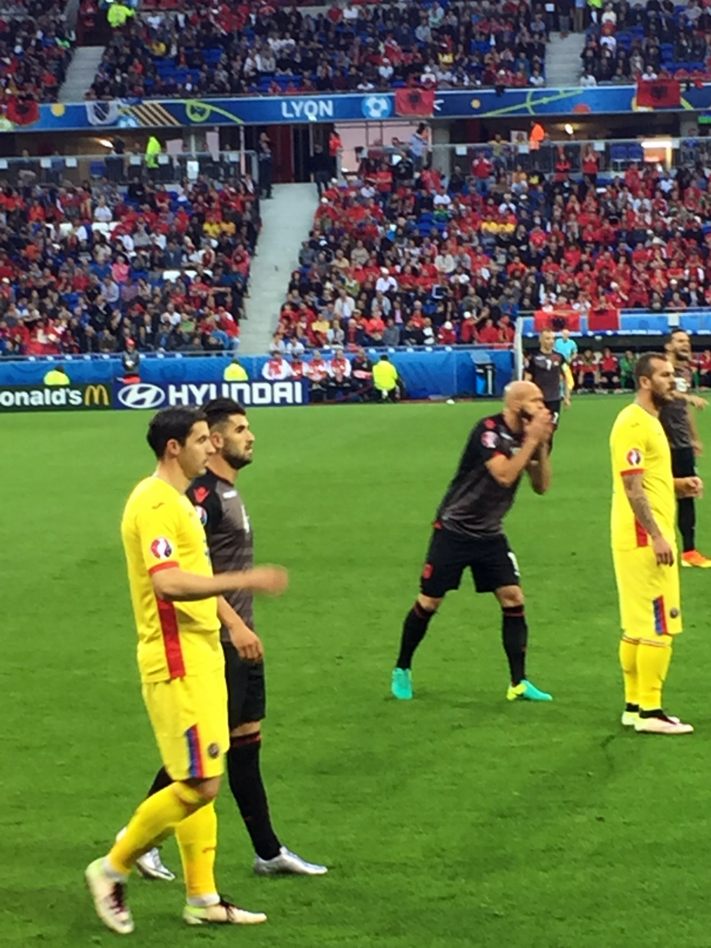 Romania-Albania (2016-06-19)